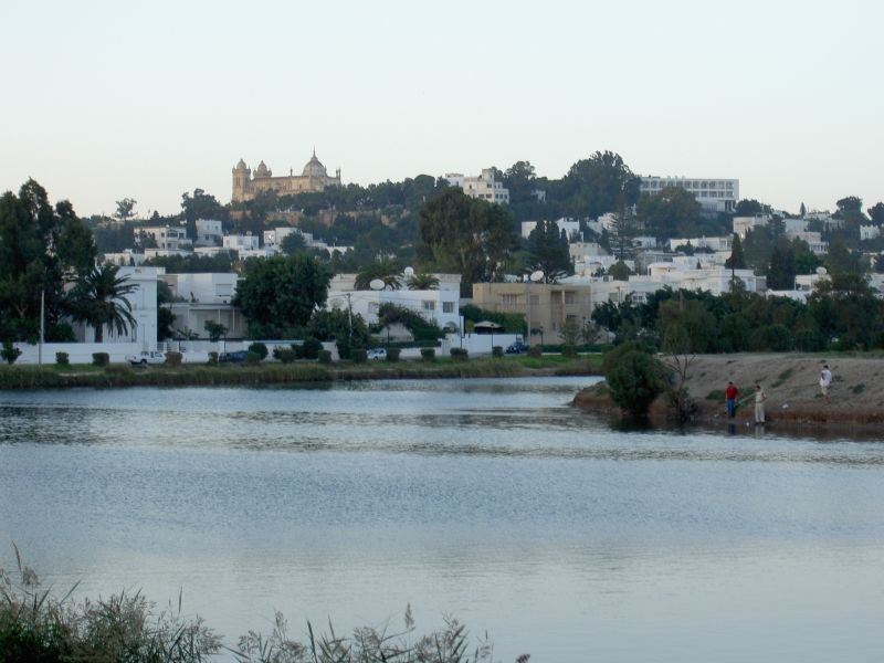 Carthage, Tunisia.